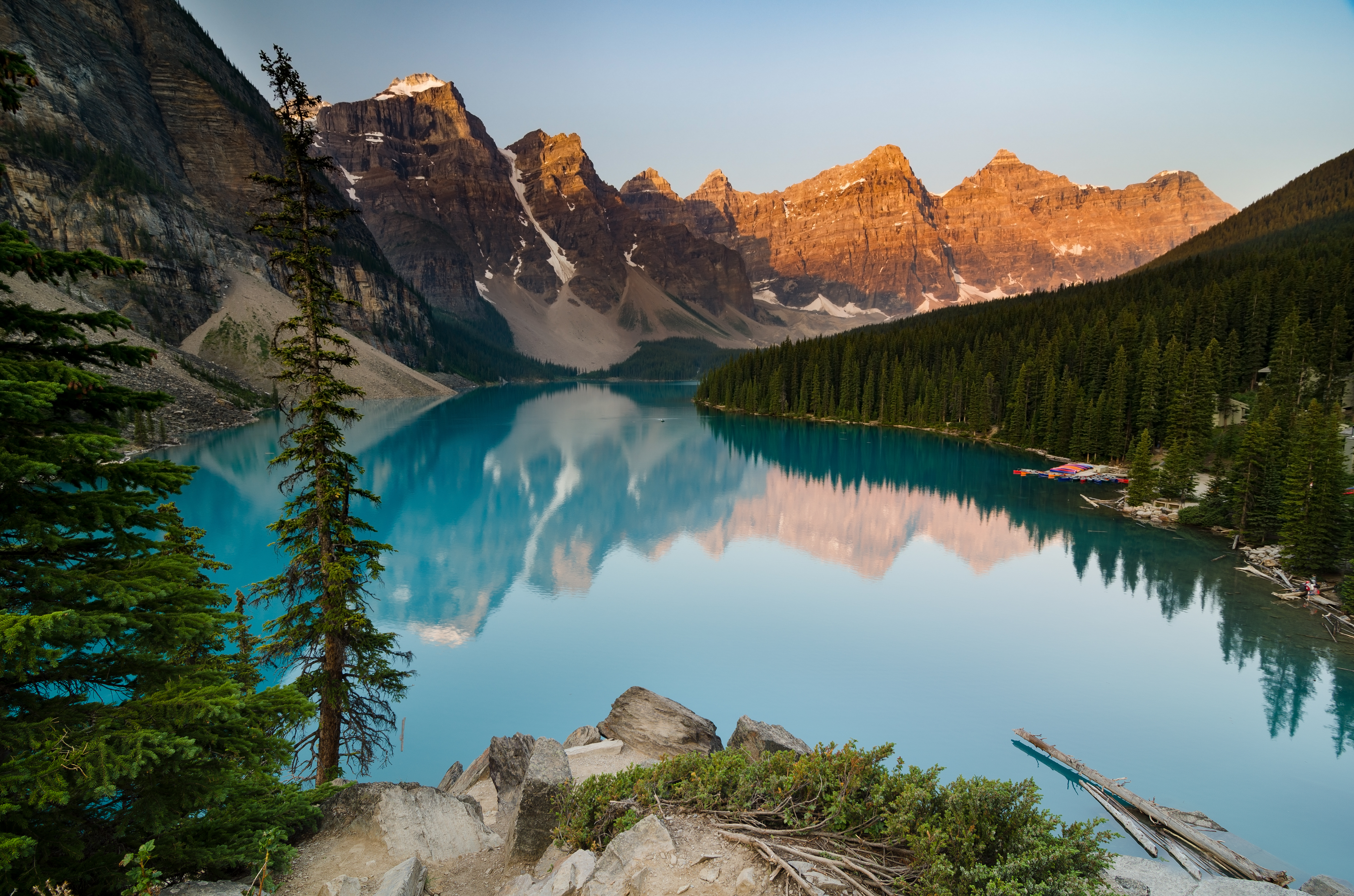 Sunrise by Moraine Lake, Banff National Park, Alberta, Canada